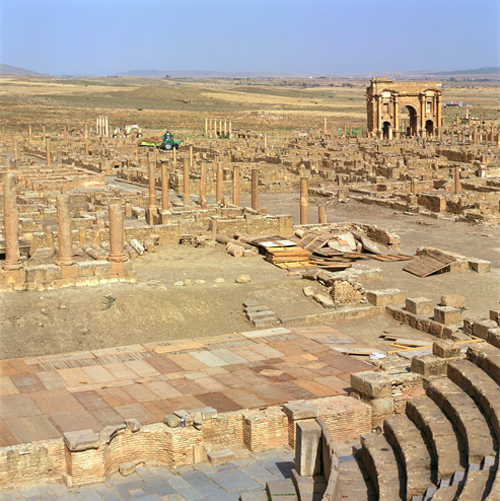 Timgad